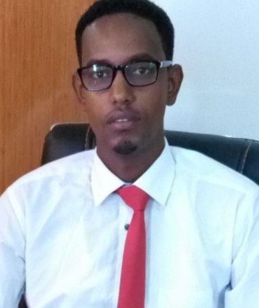 Hon. Abass in his new office.